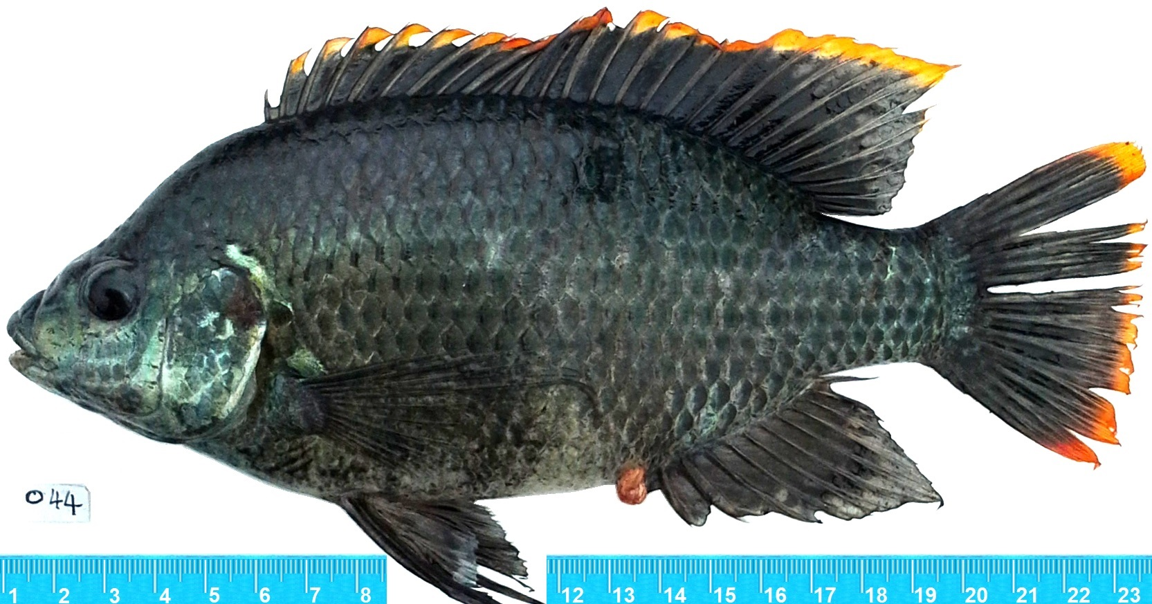 Oreochromis variabilis male from a fishpond at Njombe, Tanzania. [photo B.Ngatunga]